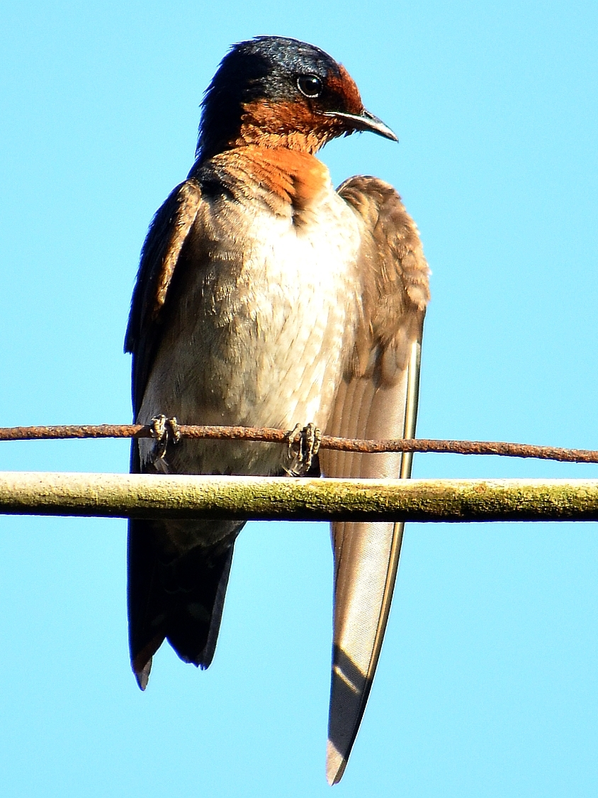 Pacific Swallow subspecies "javanica". Manado, North Sulawesi